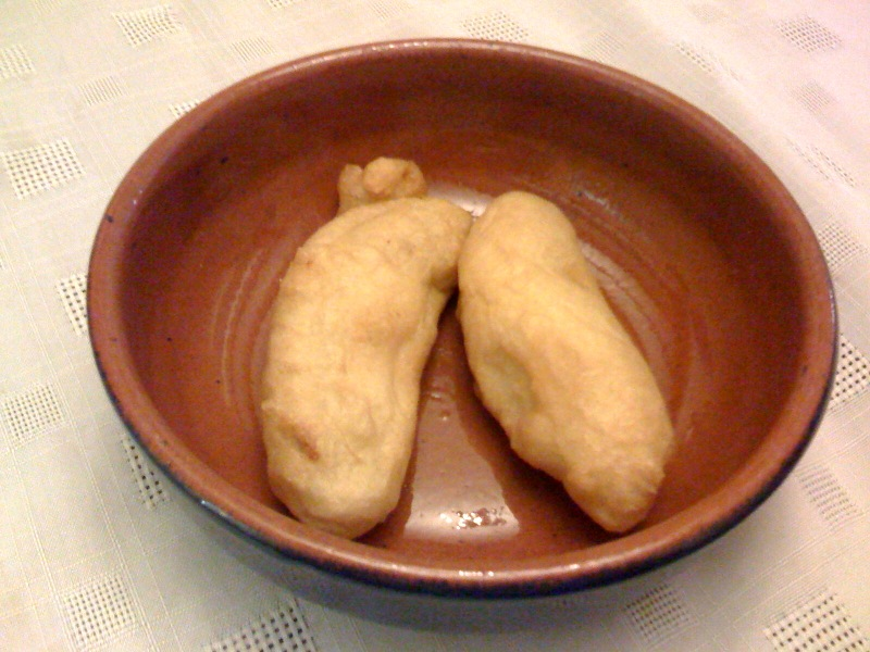 Banana fritters - a popular sweet in UK Chinses restaurants